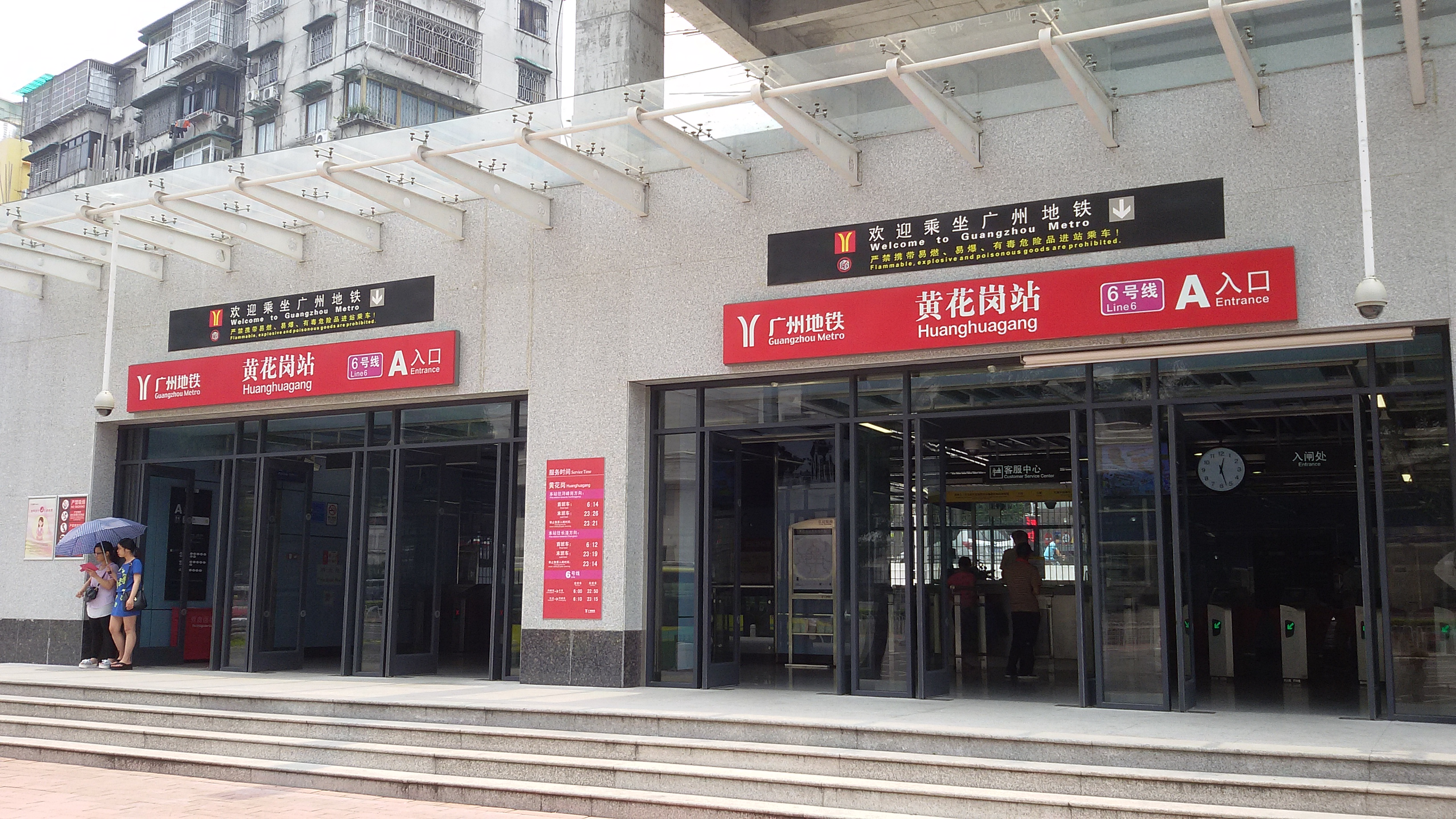 Exit A for Huanghuagang Station, Guangzhou Metro. 粵語: 廣州地鐵，黃花崗站嘅A出入口。